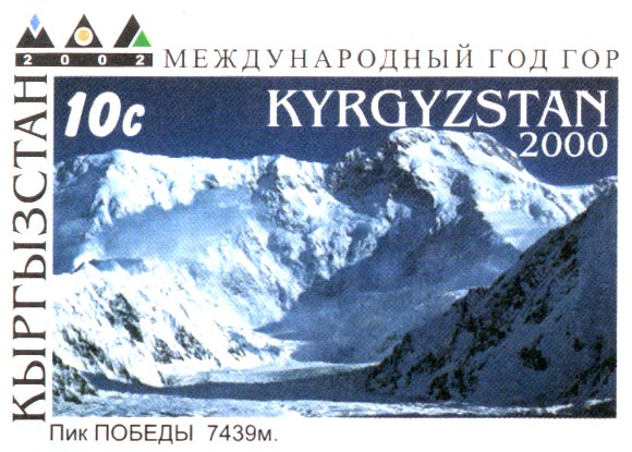 Stamp of Kyrgyzstan